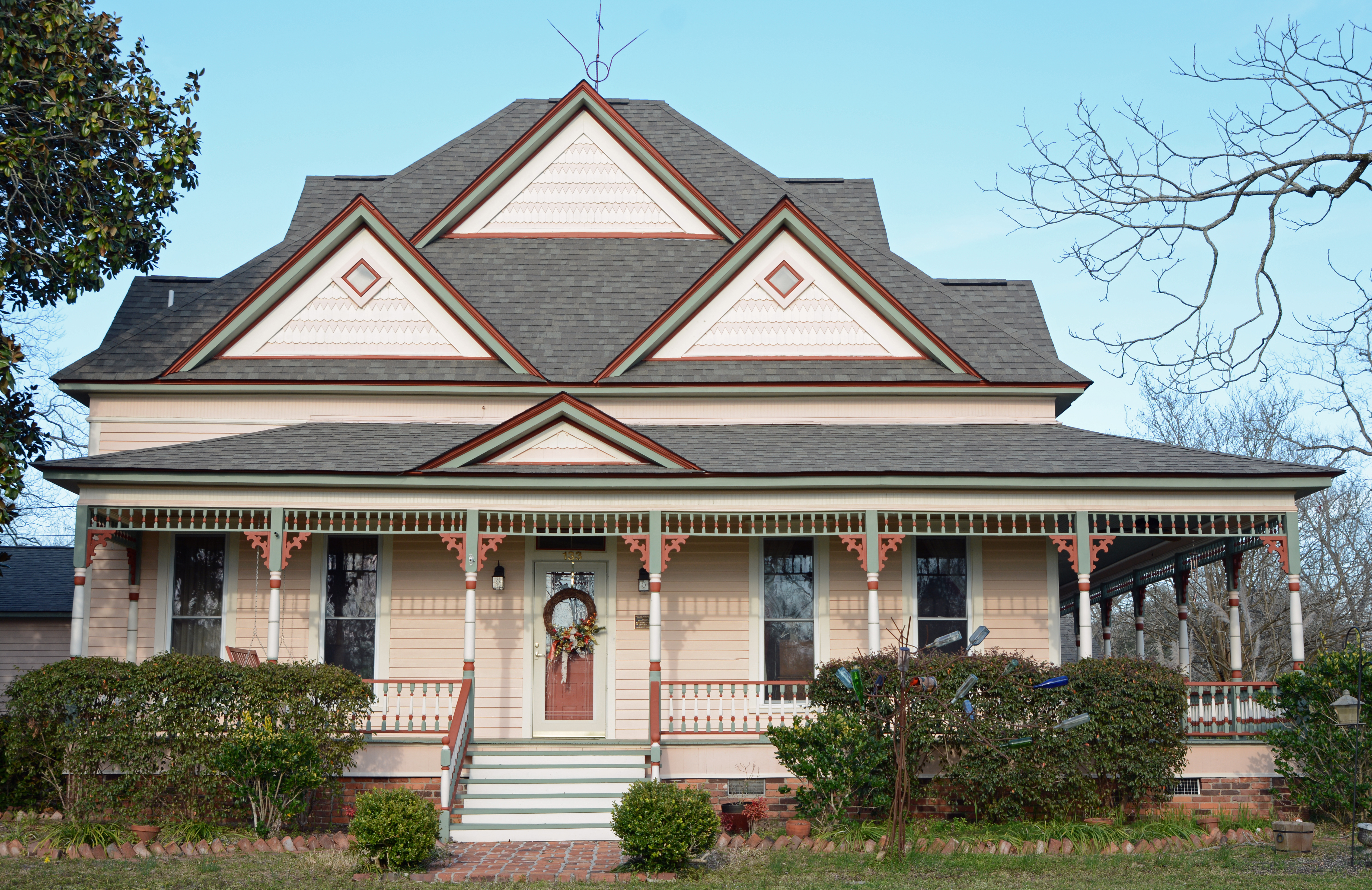 The Davis-Proctor House in Twin City, Georgia, U.S. and a contributing property to